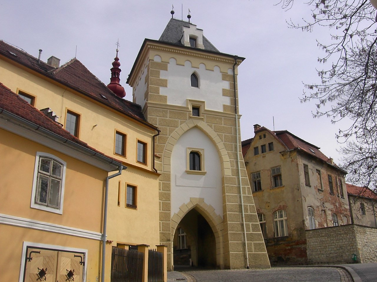 The Priests' Gate in Žatec, a view from the outer side.